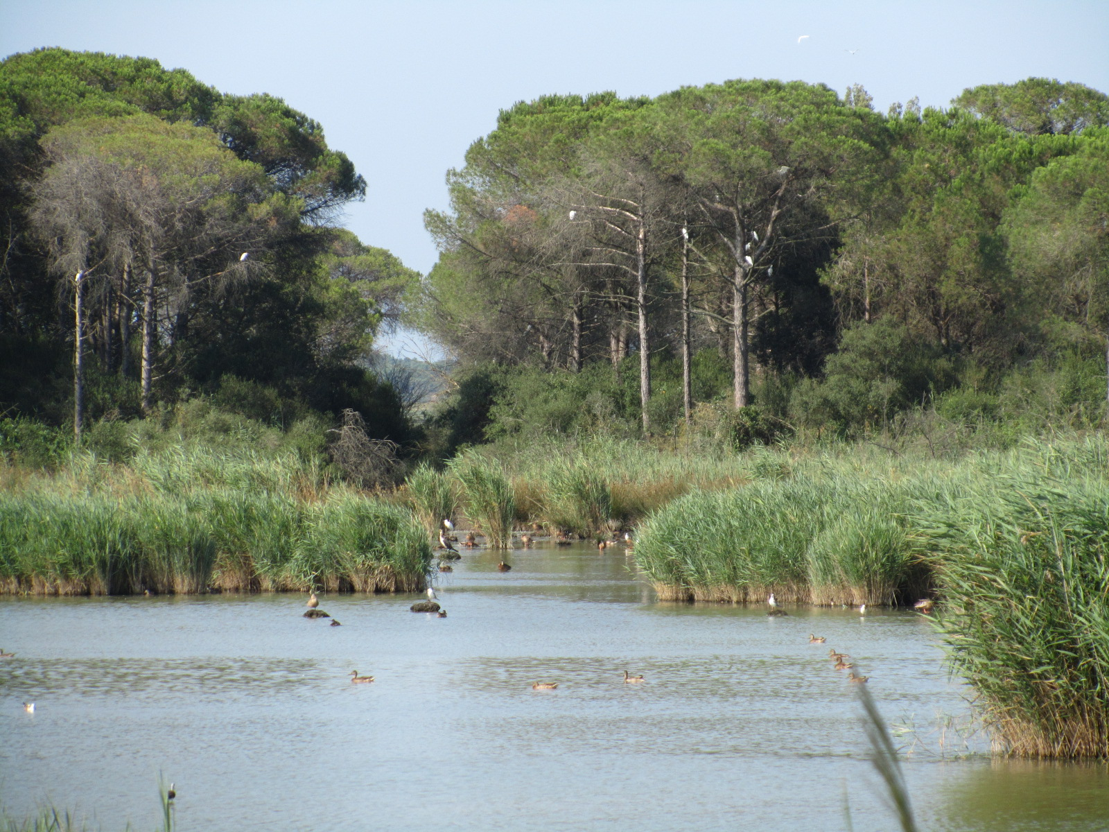 Pineta di Classe, near Classe, south of Ravenna, Italy; Part of the "Parco regionale del Delta del Po (Emilia-Romagna)"